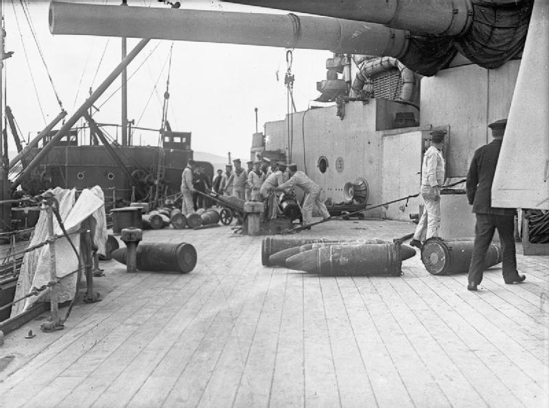 Taking shells for 13.5 inch guns aboard British battleship HMS Emperor of India.